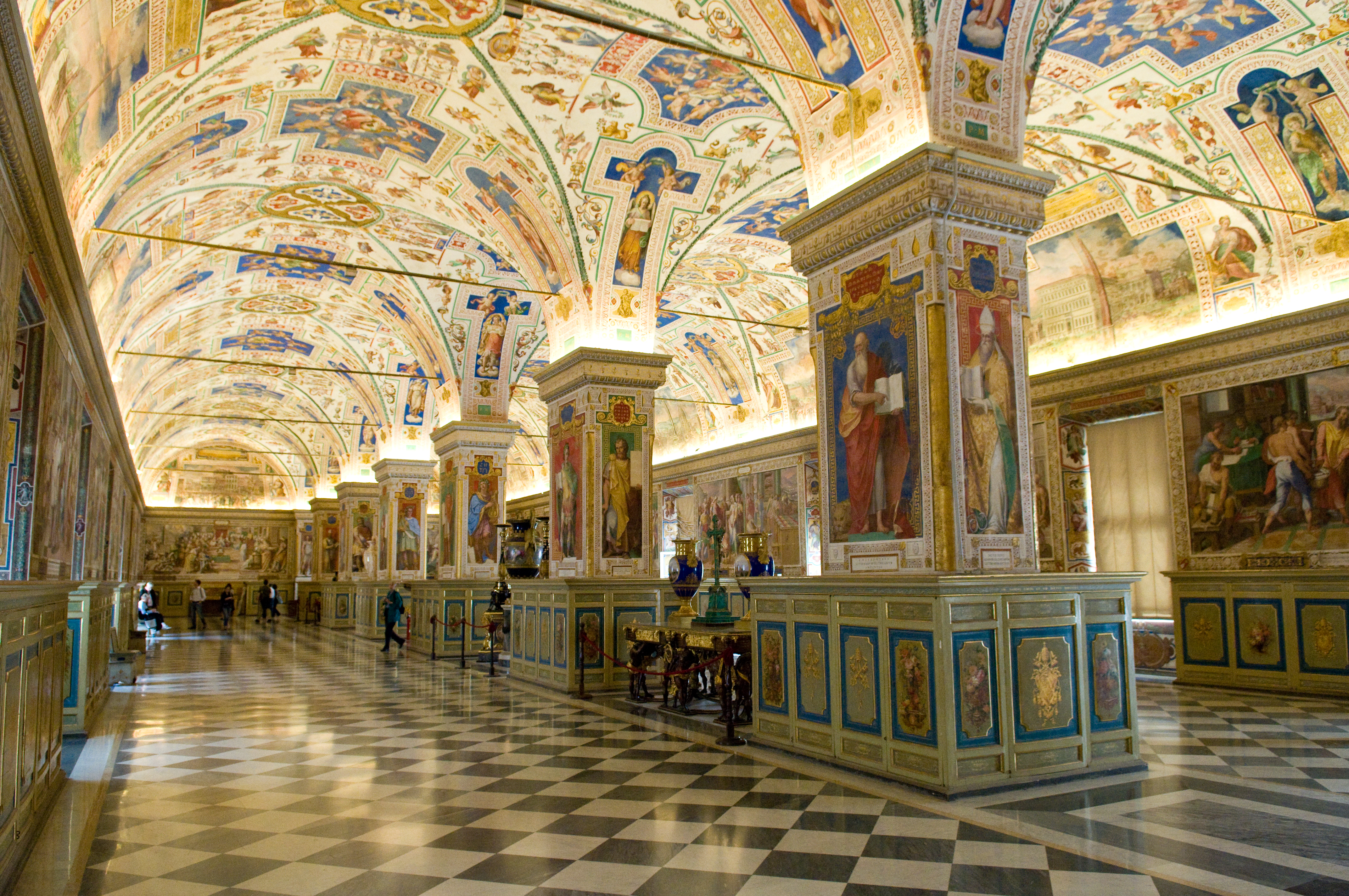 The Sistine Hall, commissioned by pope Sixtus V in the end of the 16th century. Originally part of the Vatican Library, now used by the Vatican Museums.